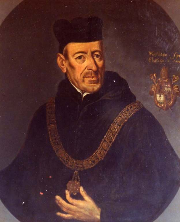 Portrait of Leodegar Bürgisser, prince-abbot of St. Gall (1696-1717).